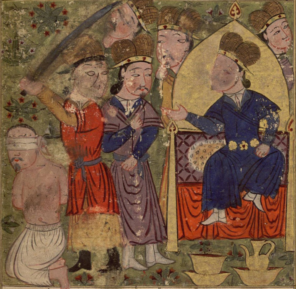 Execution of Buqa Chingsang of Jalairs